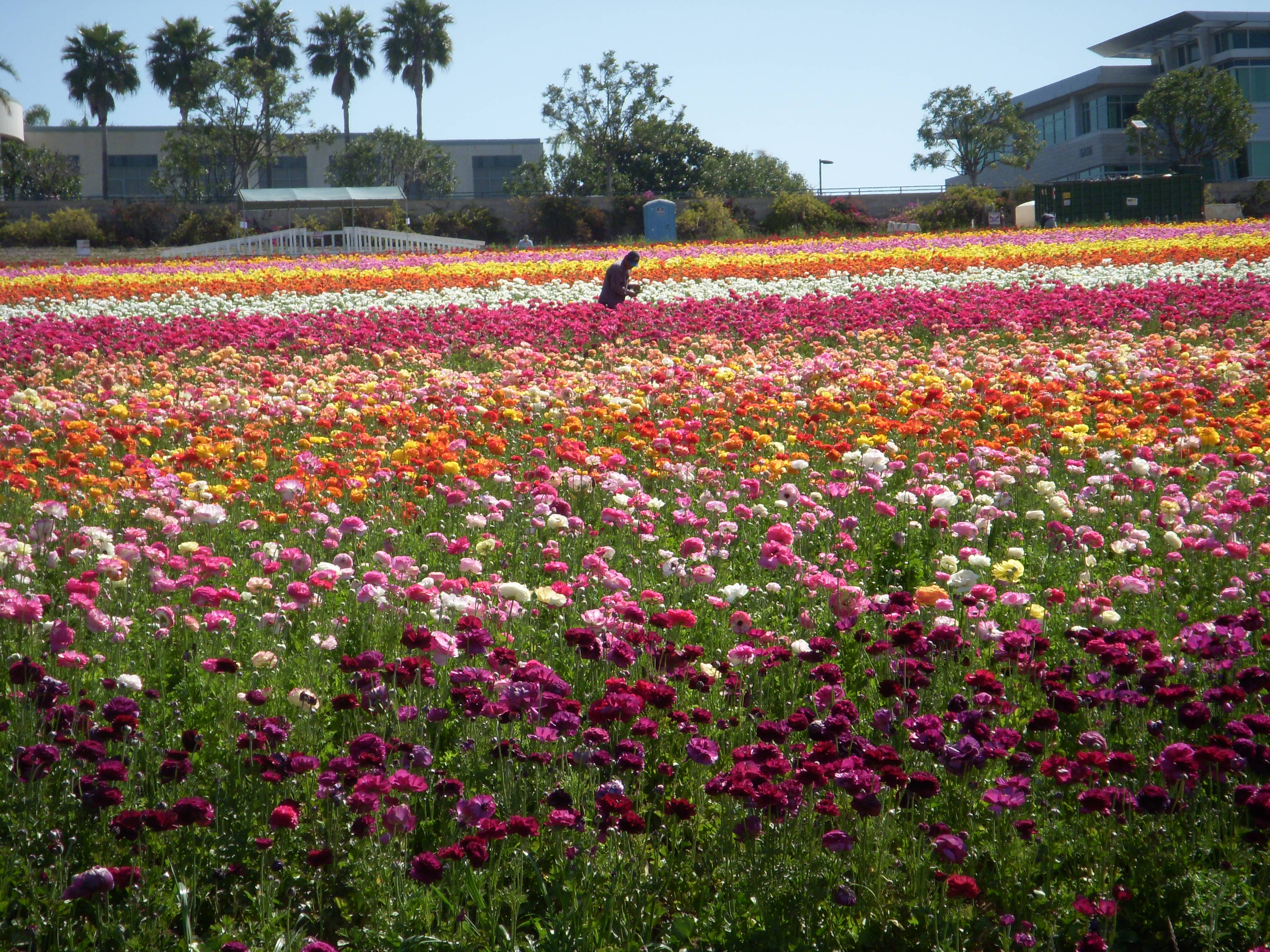 మనోహరమైన పూల వరుసలు